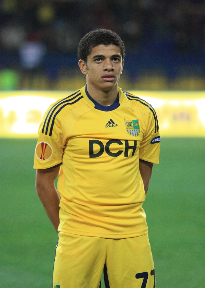 Freda Taison